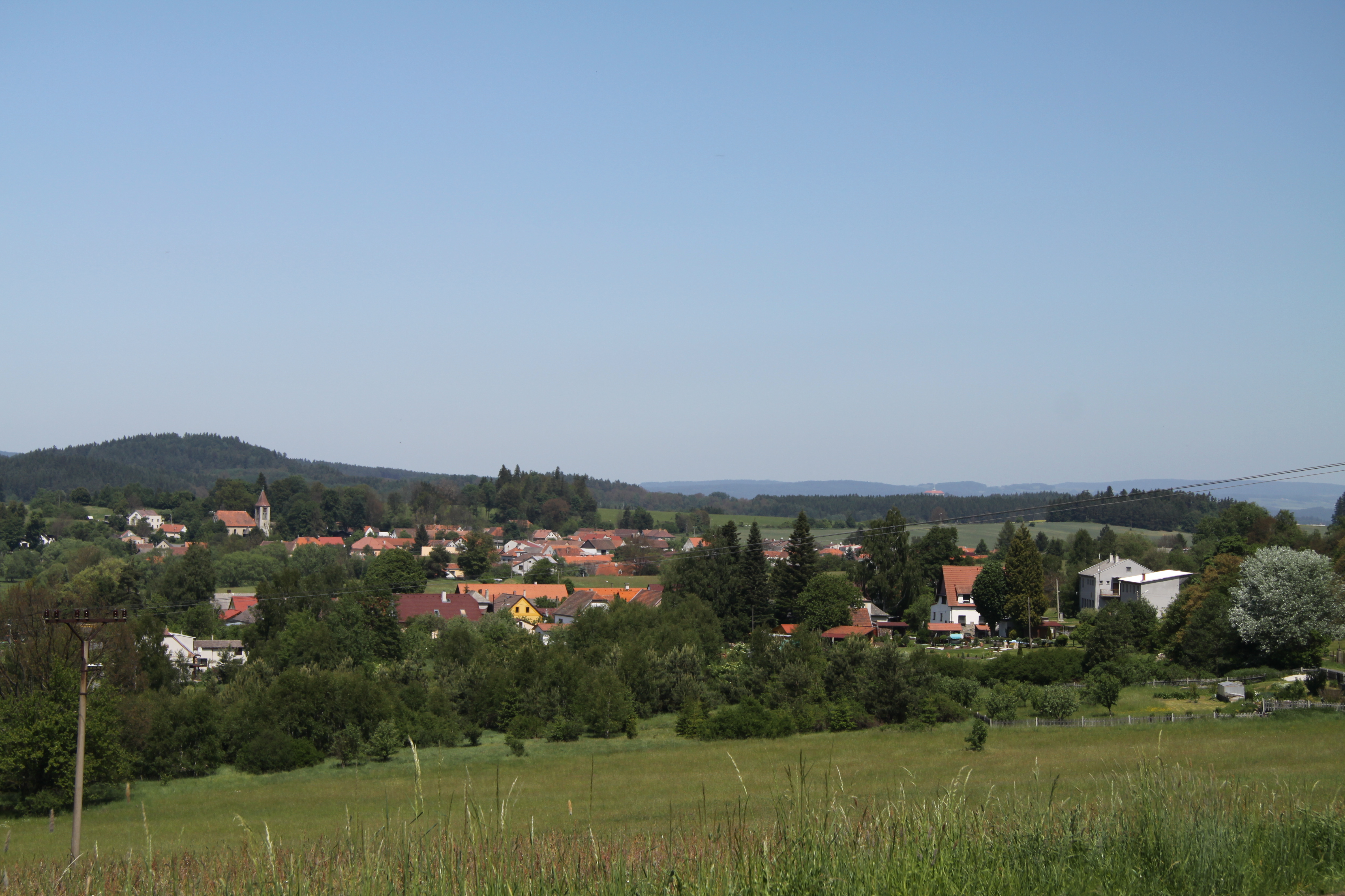 Panorama view to the Neurazy village, Plzeň-South District, Czech Republic - Google Maps - Google Earth